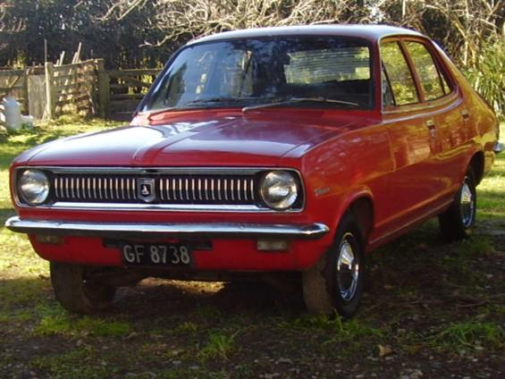 1969–1972 Holden LC Torana sedan.